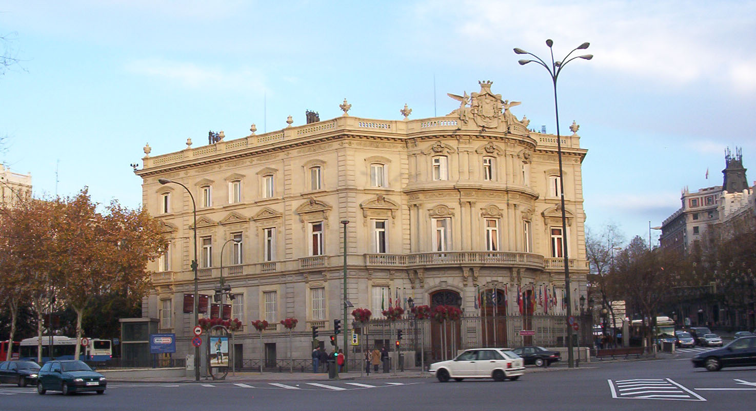 Palacio de Linares, at the Plaza de Cibeles (square) in Madrid (Spain). Projected in 1872 by architect Carlos Colubí and built from 1873 to 1884. Nowadays it's the Casa de América ("House of the Americas") headquarters.